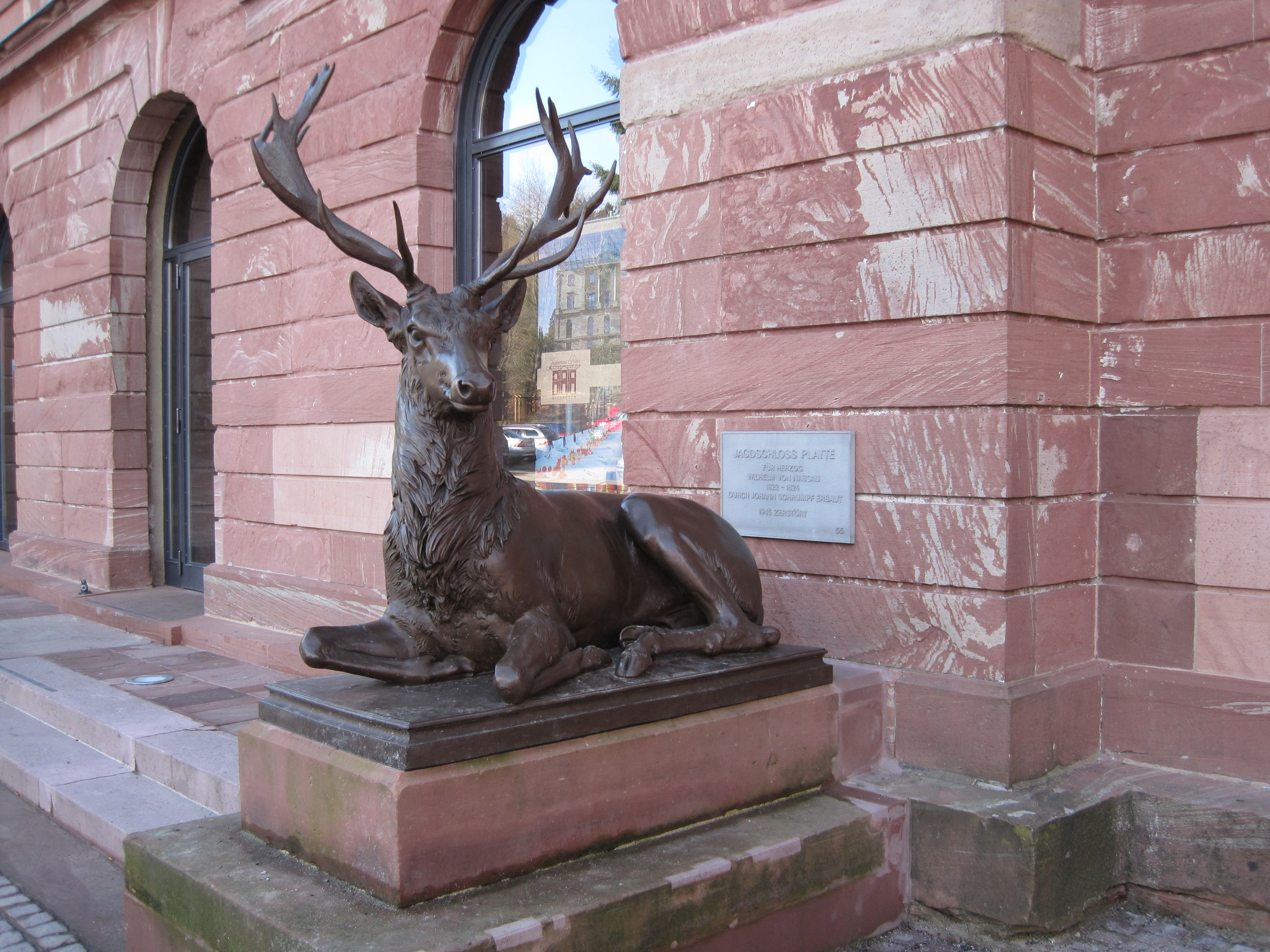 Jagdschloss Platte near Wiesbaden, Germany. The information panel behind gives the wrong name of the architect: Johann Schrumpf - the right name is Friedrich Ludwig Schrumpf